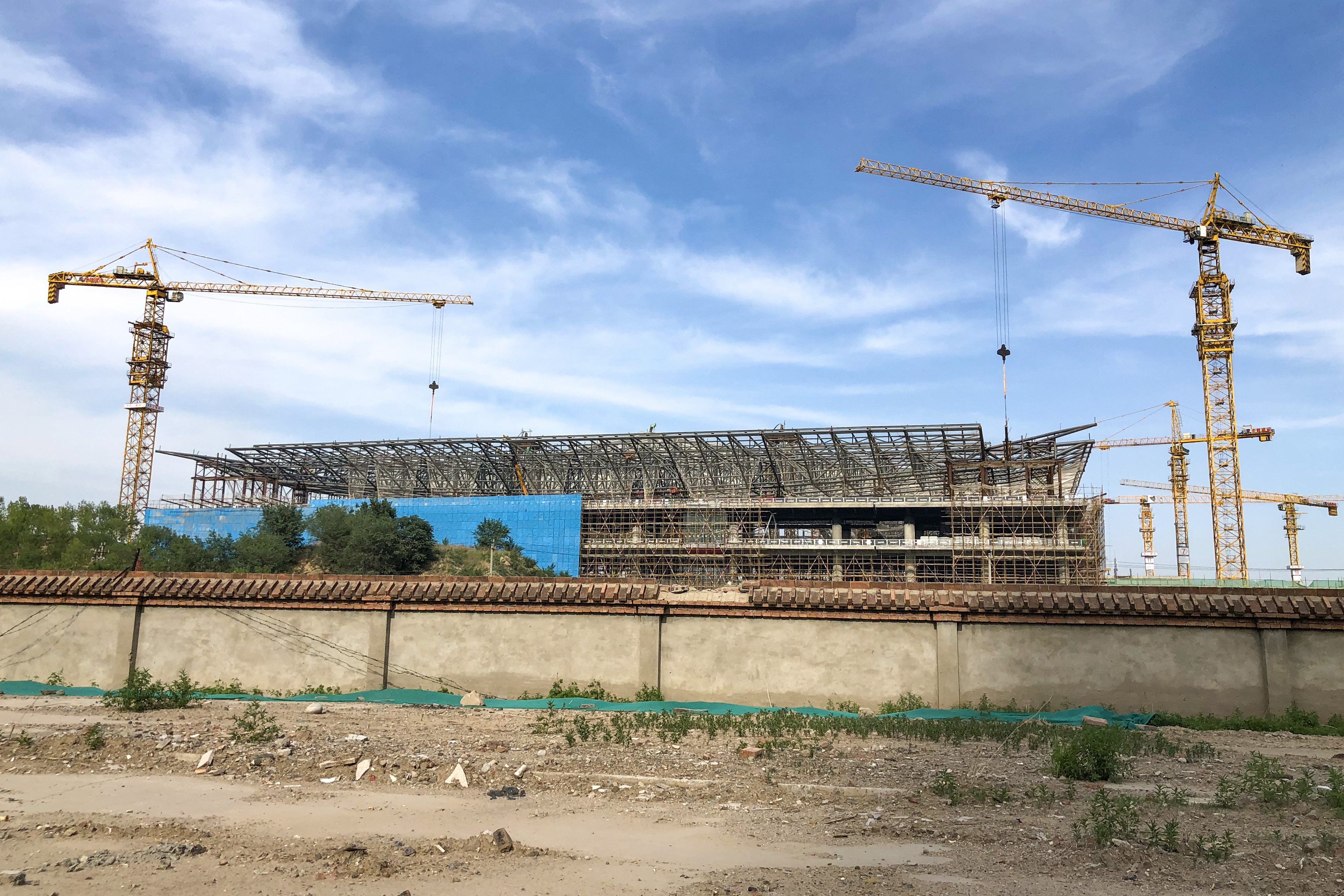 Just topped out a few days ago, but still a wall in front of it!